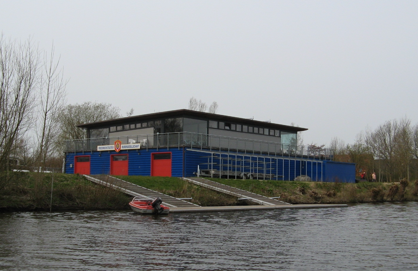 rowing club house in Friedrichstadt Author: Dirk Ingo Franke